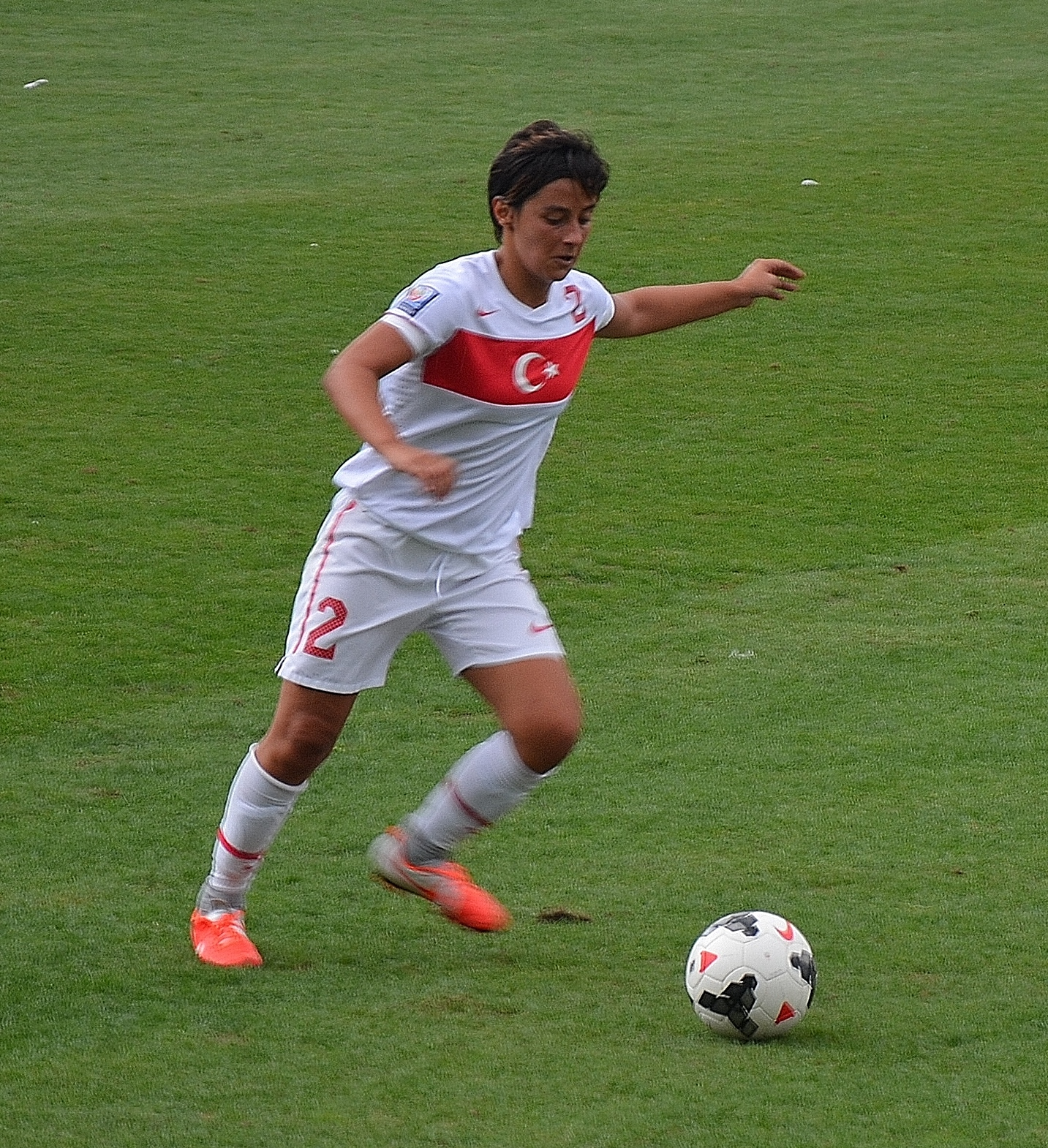 Sevinç Çorlu for Turkey women's national football team in the home match against Belarus